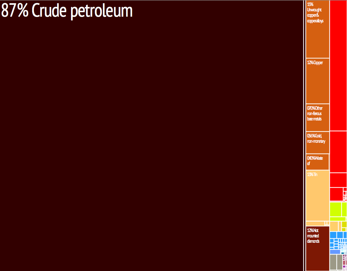 Export Trading Treemap. From MIT/Harvard Atlas of Economic Complexity